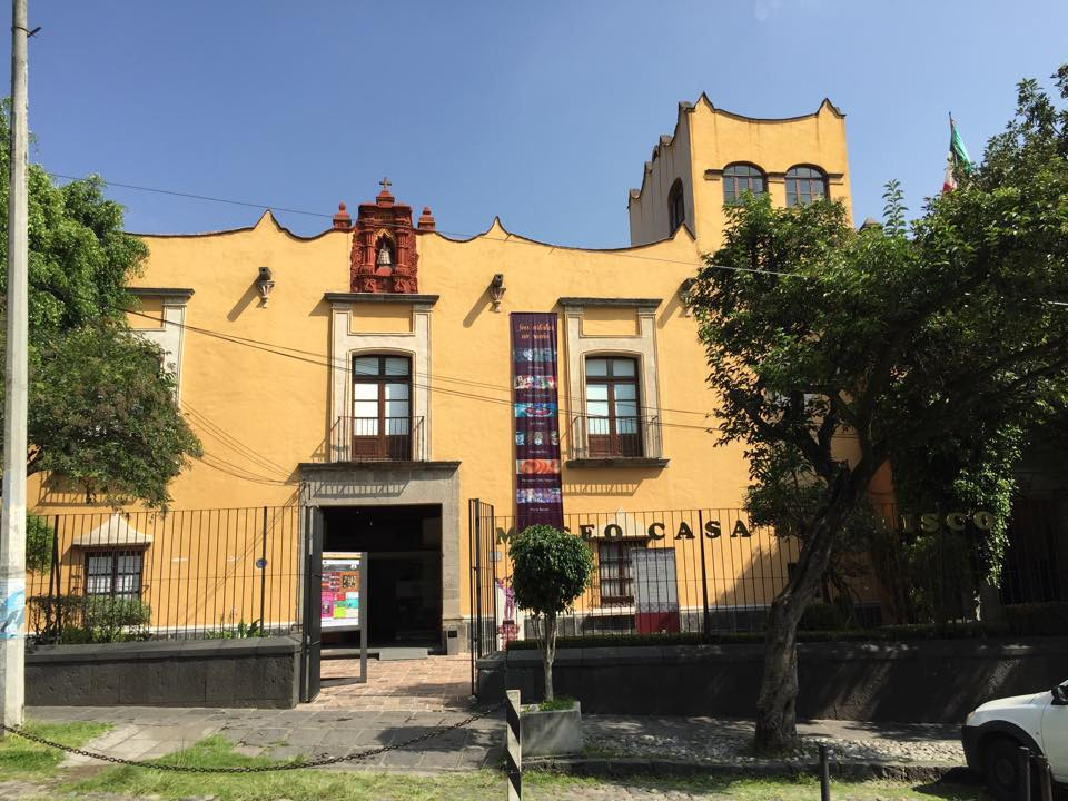 Centro Cultural Isidiro Fabela